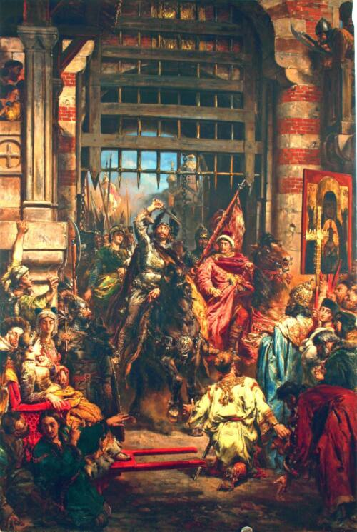 Boleslaw the Brave (left) with Szczerbiec (sword) and Swiatopelk (right) at the Golden Gate in Kiev. On the left, Przedsława Włodzimierzówna. Painting considered lost during WWII until revealed in 2004.